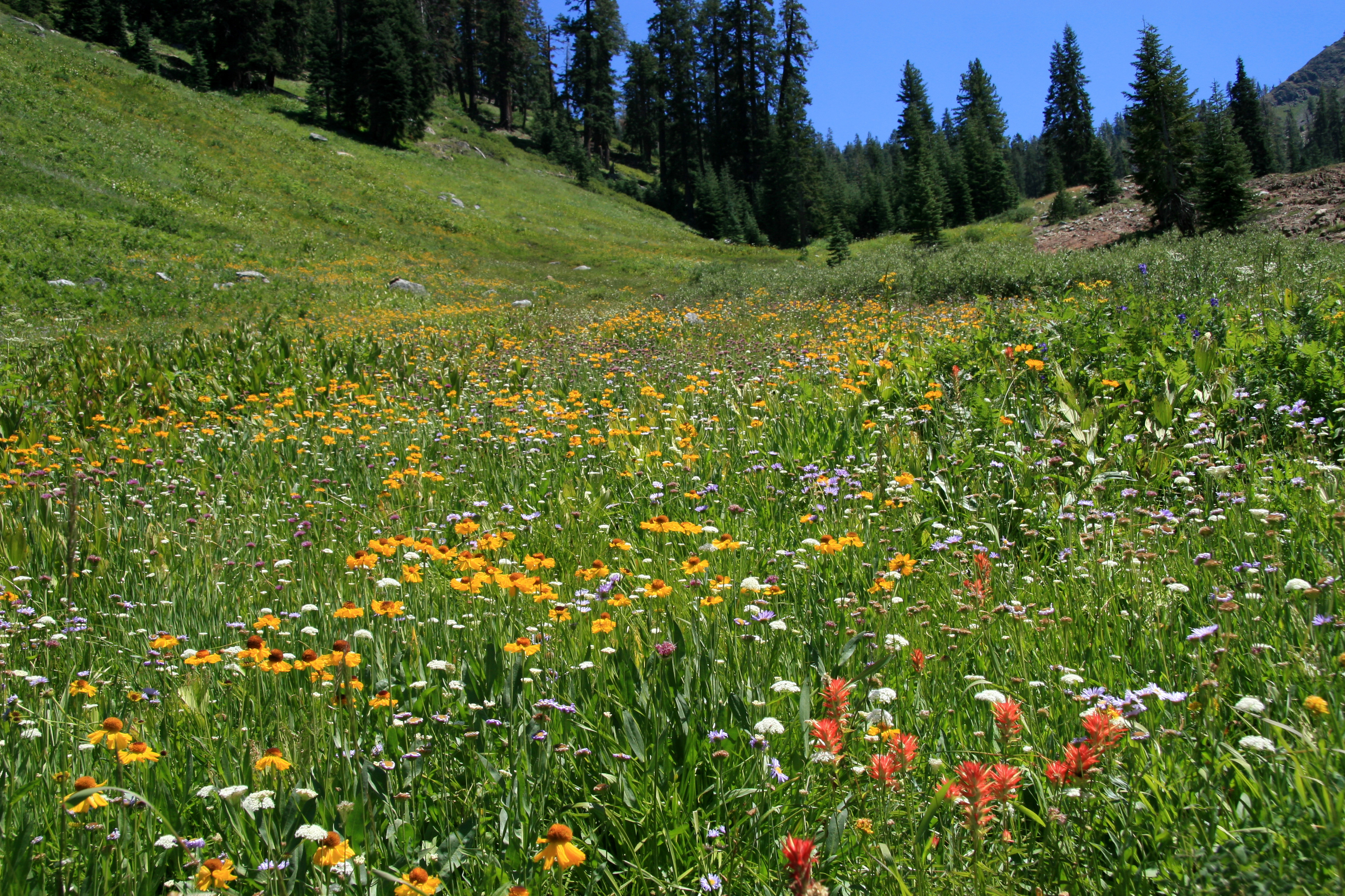 Flowers in alpine meadow at about 8,500 ft (2,600 m), looking uphill toward Timber Gap and Mineral King Valley, in Sequoia National Park, California. The dominantflower is Bigelow sneezeweed (Helenium bigelovii), with indian paintbrush, asters, onions, yarrow, etc.